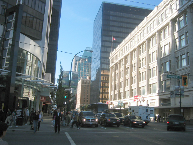 Looking west at the intersection of Georgia and Seymour streets, Vancouver.